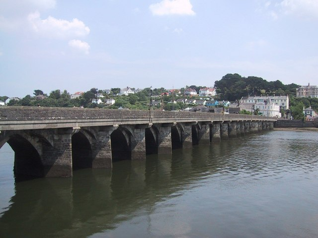 The Long Bridge at Bideford